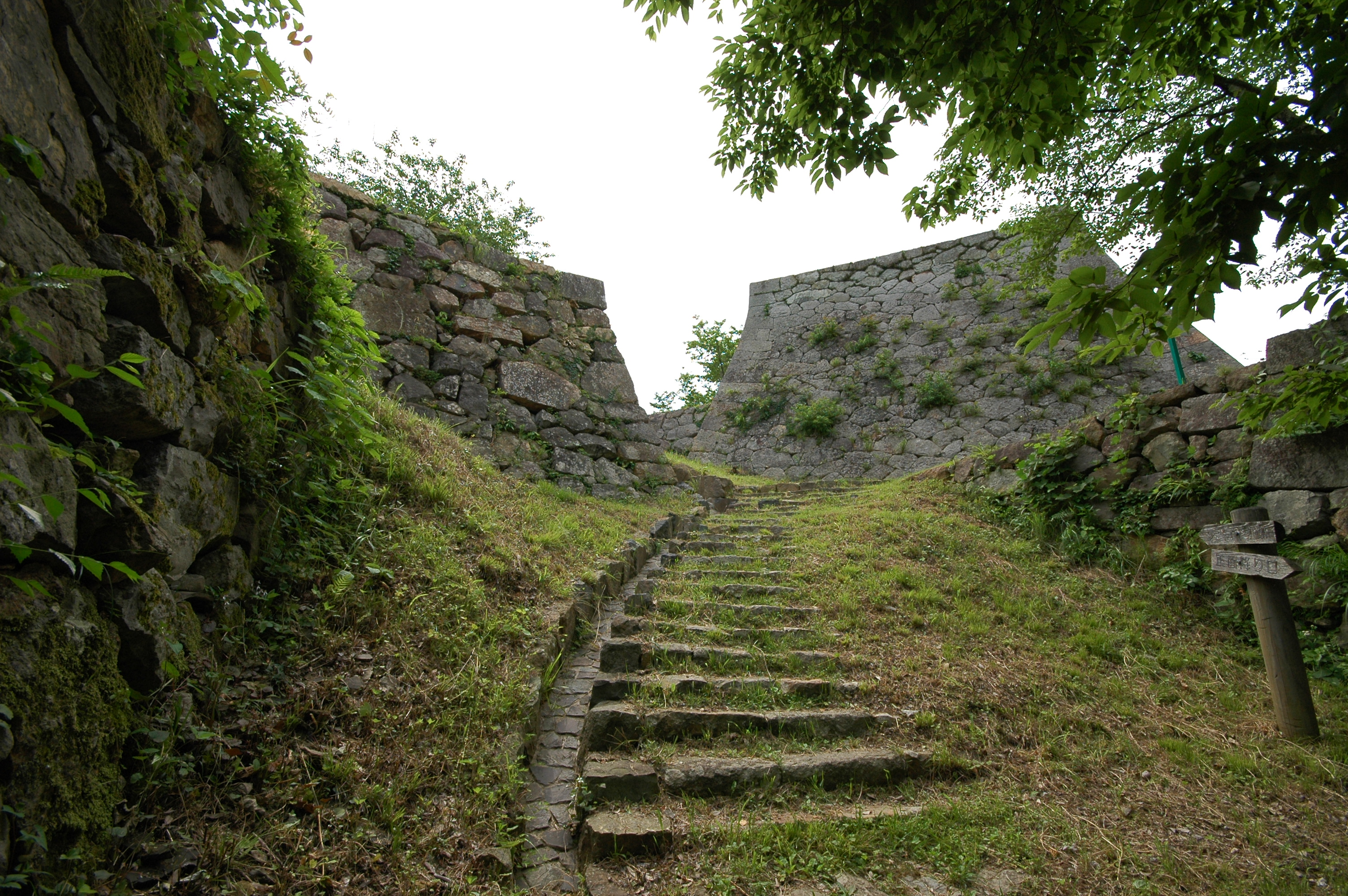 remains of the small keep base and Kuroganemon gate